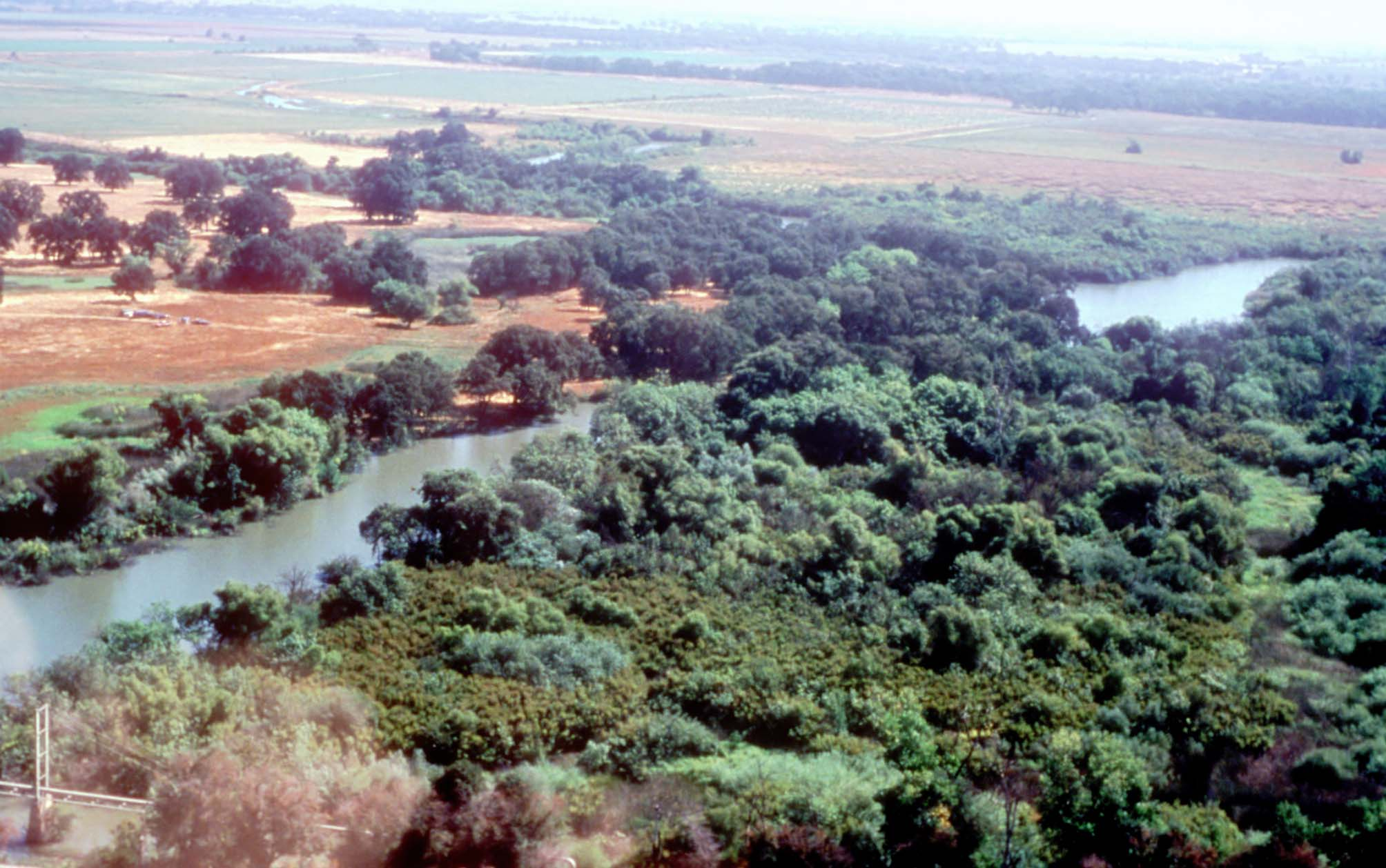 Cosumnes River aerial view, Sacramento County, CA – Published on Cascadia Times and atributed to FWS